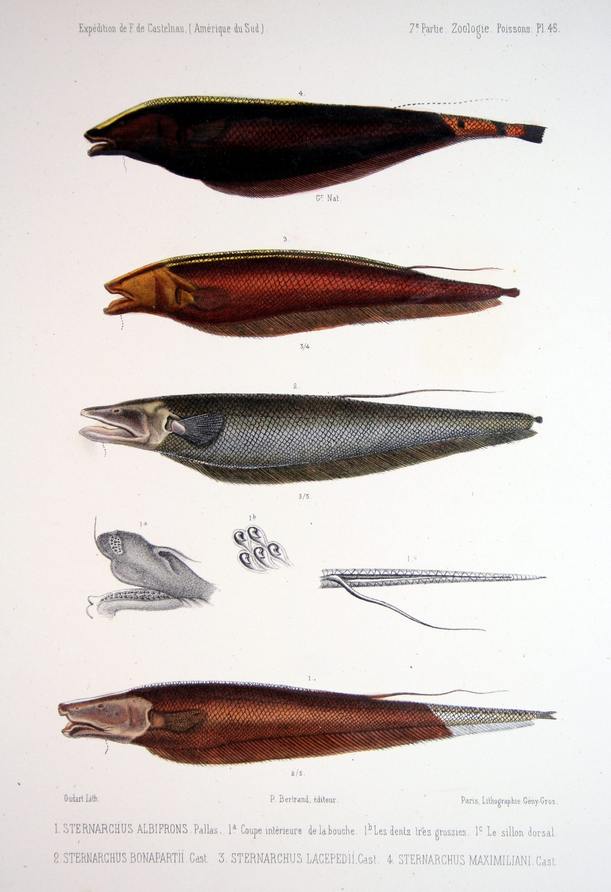 From top to bottom: Sternarchus maximiliani = Apteronotus albifrons Sternarchus lacepedii = Apteronotus albifrons Sternarchus bonapartii = Apteronotus bonapartii Sternarchus albifrons = Apteronotus albifrons (1a: inside of mouth, 1b: teeth, 1c: tail from above)